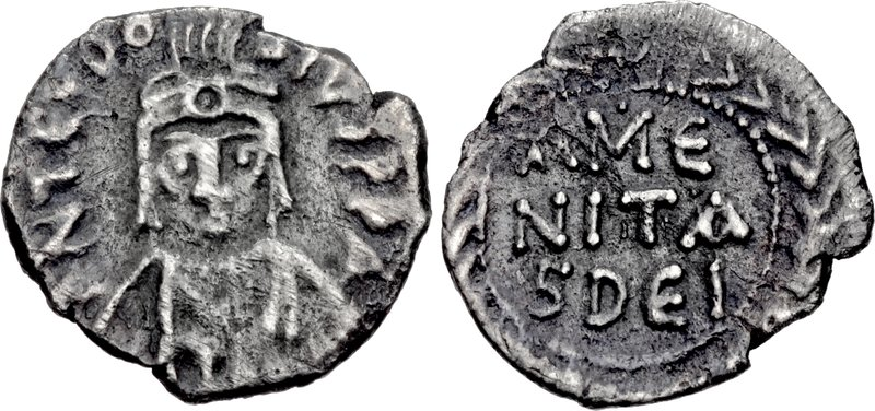 Theodosius. 590-602. AR Half Siliqua (14mm, 0.63 g, 6h). Light weight issue. Carthage mint. Struck 597-602. Helmeted, draped, and cuirassed facing bust / AMЄ/NITA/S DЄI in three lines; all within beaded border within wreath. DOC 305; MIBE 60; SB 614. VF, toned.